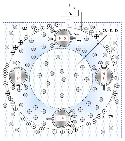 Molecular power 48. Sailing electrodynamic device